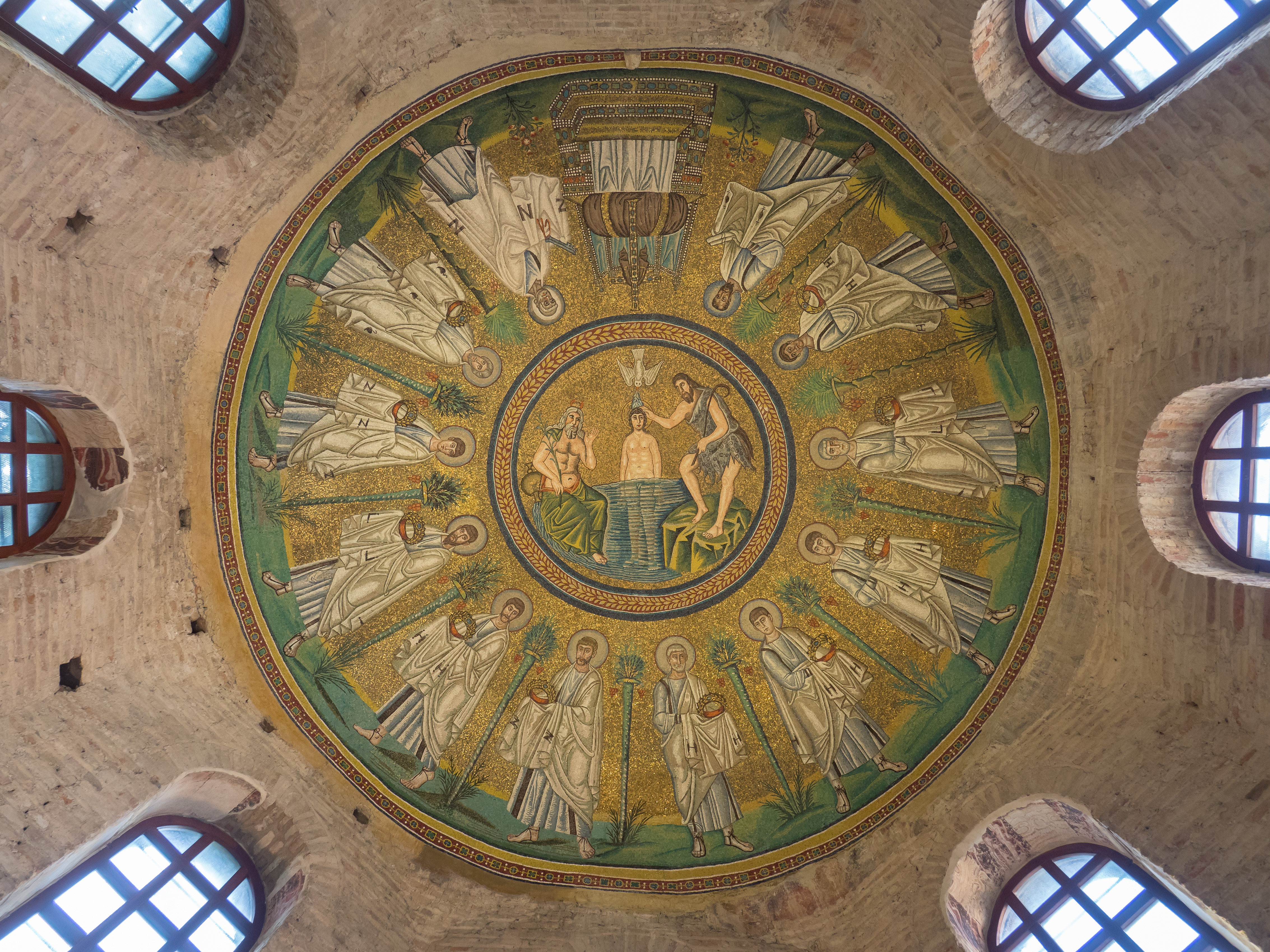 Baptistry of the Arians - Mosaics on the vault (6th century).